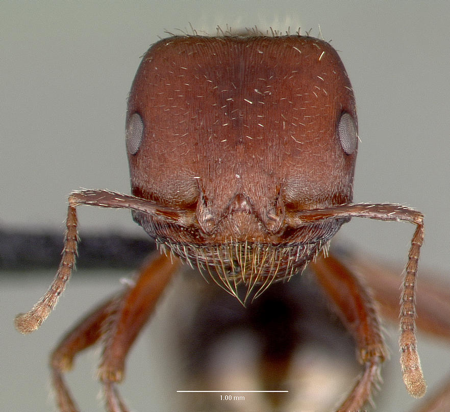 Head view of ant Pogonomyrmex bicolor specimen casent0006274.